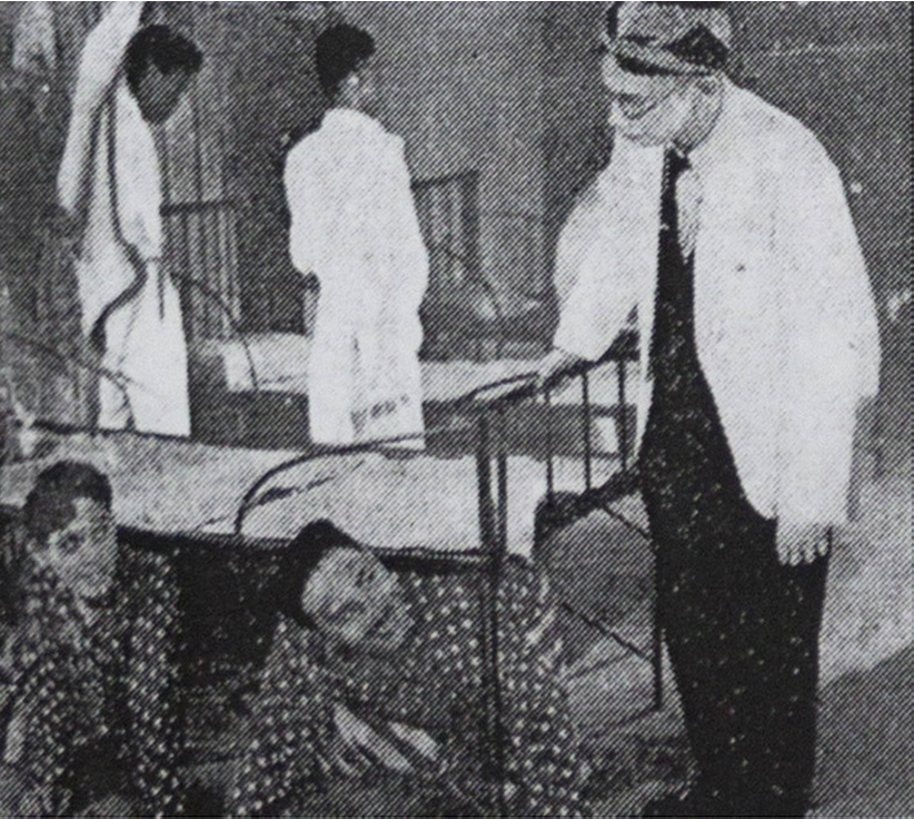 Pah Wongso in a scene from Pah Wongso Tersangka, completed by Star Film and released in December 1941.